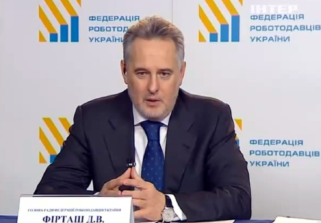 Dmytro Firtash, a Ukrainian businessman and investor, one of the wealthiest people in Ukraine.